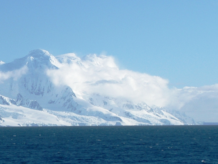 Antim Peak in Imeon Range on Smith Island, Antarctica with Mount Foster on the left.